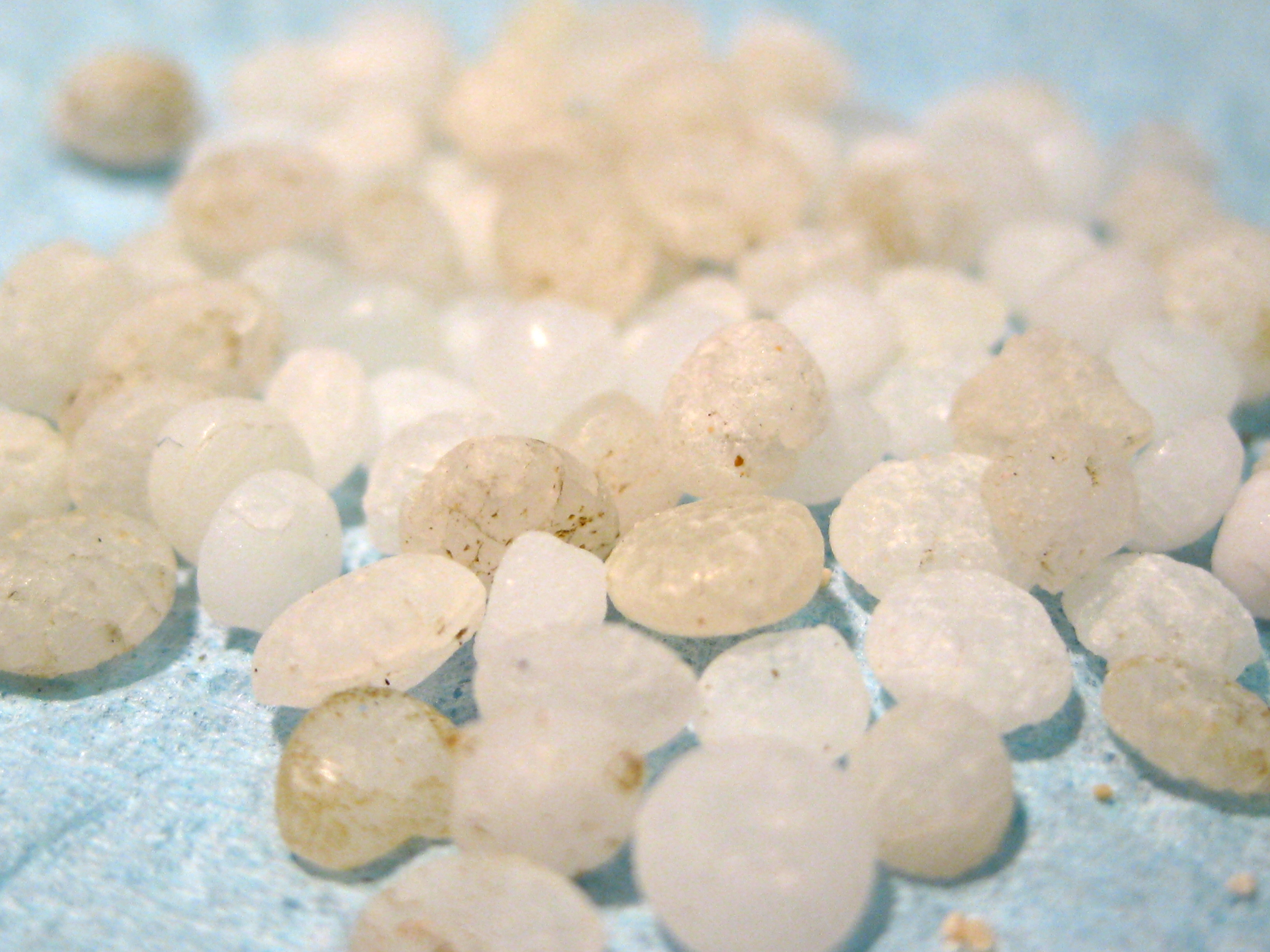 Pre-production plastic pellets are melted down and used in the manufacturing of the plastic products that we use everyday. These pellets enter the environment and are frequently found in areas of marine debris concentration. For more information about marine debris and how it can be prevented, visit the NOAA Marine Debris Program website.